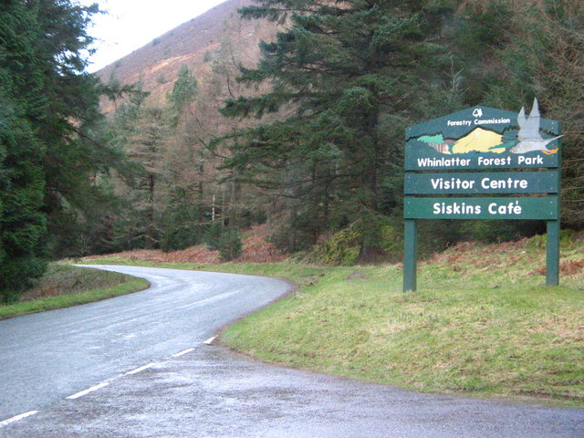 The summit of the Whinlatter Pass, in Cumbria, and the entrance to the Whinlatter Forest Park. For more information see the Wikipedia article Whinlatter Pass.